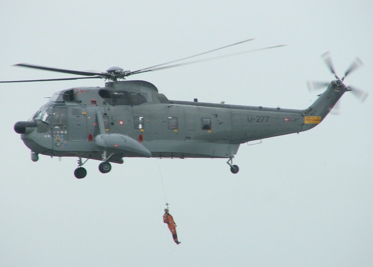 Danish air force S-61 Sea KingDansk: Dansk S-61 Sea King